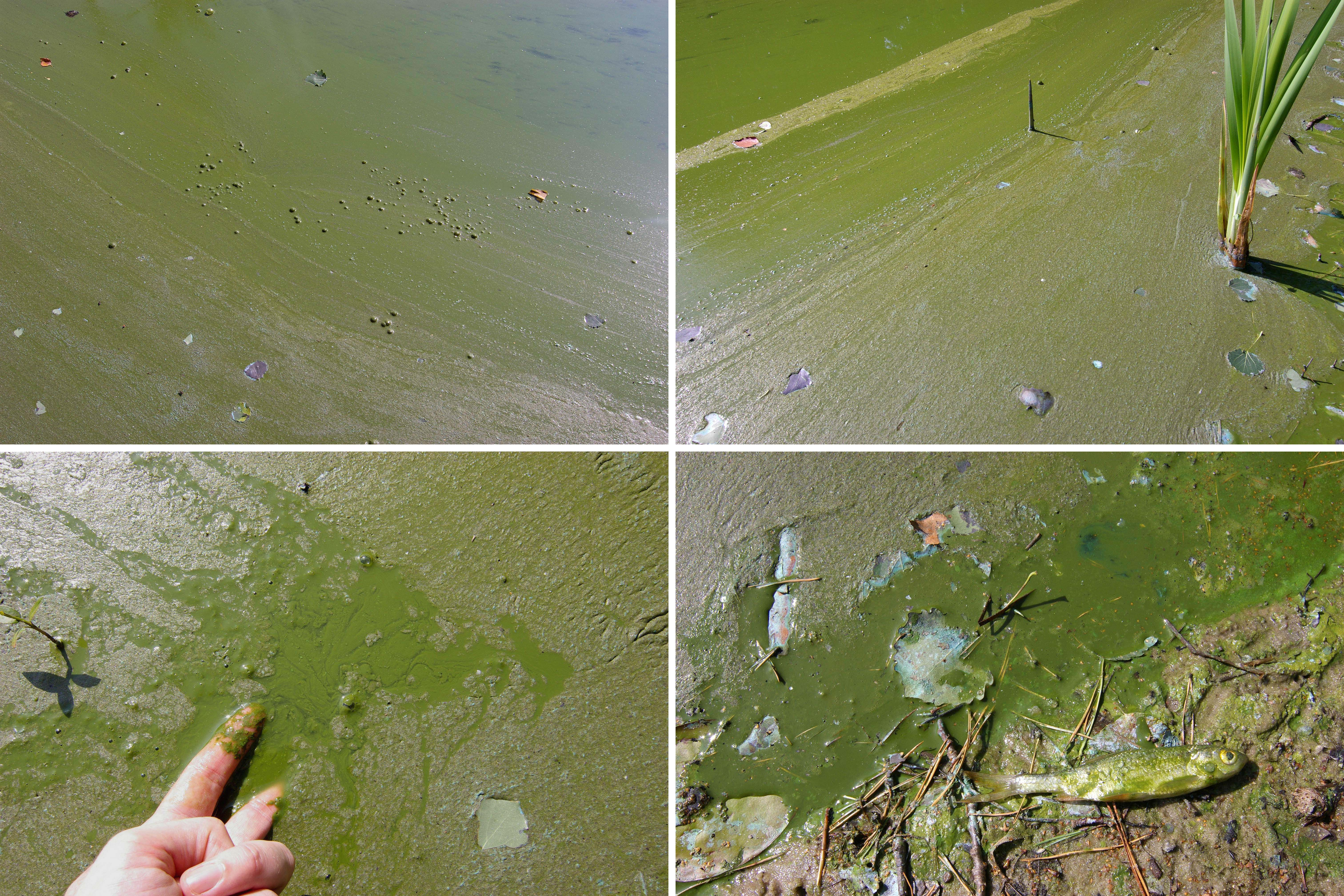 Bloom of cyanobacteria in a fish-pond (freshwater) in northern Germany.